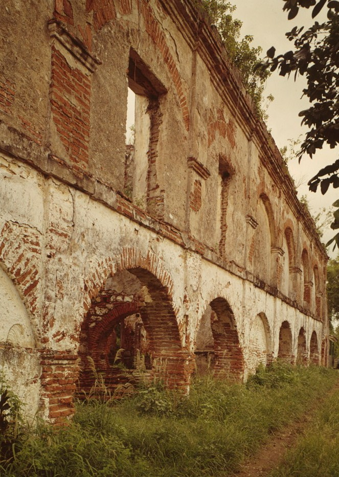 Hacienda Azurarera Santa Elena, Sugar Mill Ruins, 1.44 miles North of PR Route 2 Bridge Over Rio De , Toa Baja (Toa Baja County, Puerto Rico) cropped This image or media file contains material based on a work of a National Park Service employee, created as part of that person's official duties. As a work of the U.S. federal government, such work is in the public domain in the United States. See the NPS website and NPS copyright policy for more information. Creator: U.S. Department of the Interior, National Park Service, Historic American Engineering Record. Survey number HAER PR,75-TOBA,1A-52 Source: U.S. Library of Congress, Prints and Photographs Division, "Built in America" Collection. Copyright: "The original measured drawings and most of the photographs and data pages in HABS/HAER/HALS were created for the U.S. Government and are considered to be in the public domain." Object location18° 25′ 33″ N, 66° 15′ 05″ W